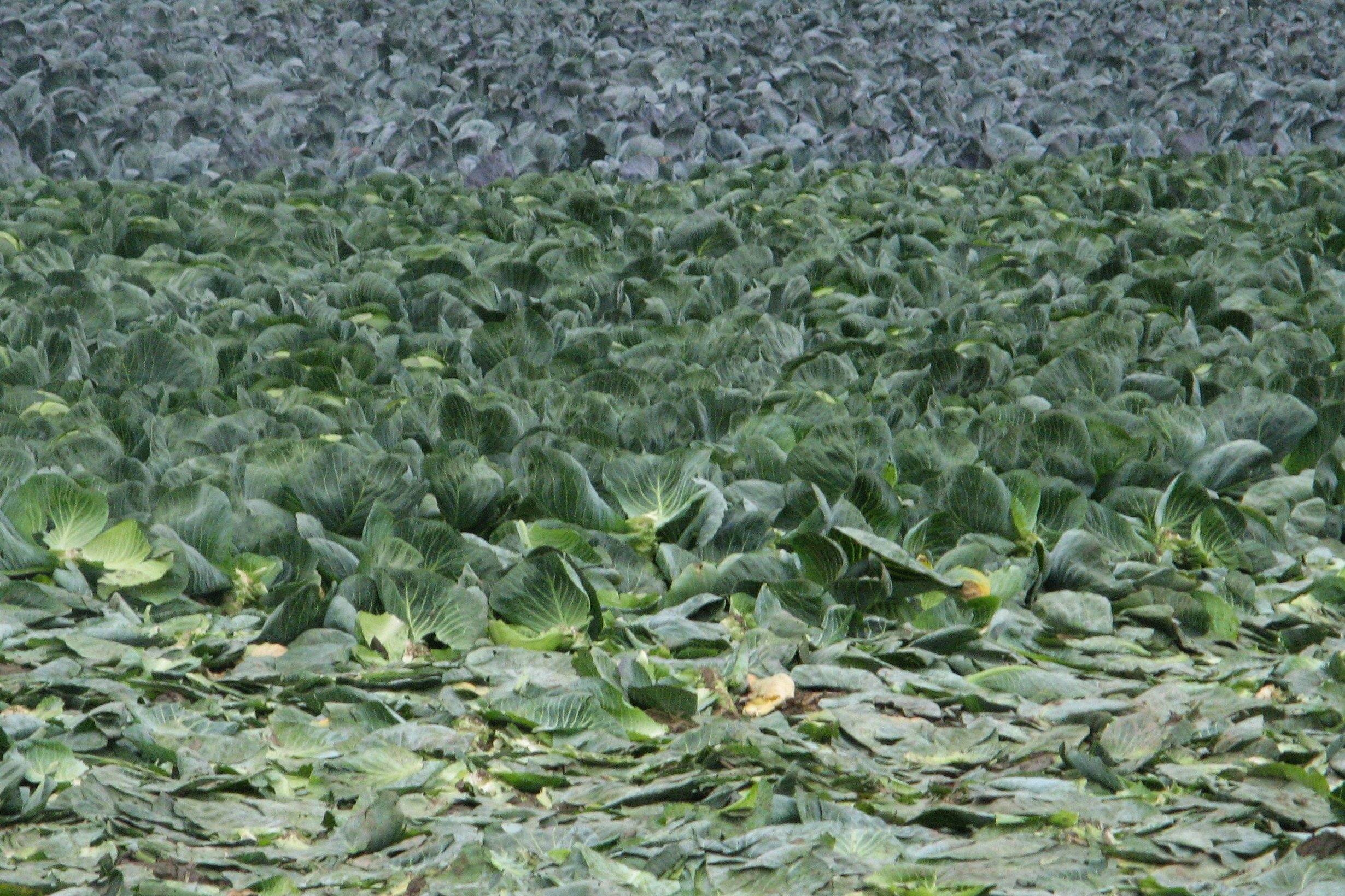 cabbage( red cabbage on a field in Schülp, Holstein, Germany